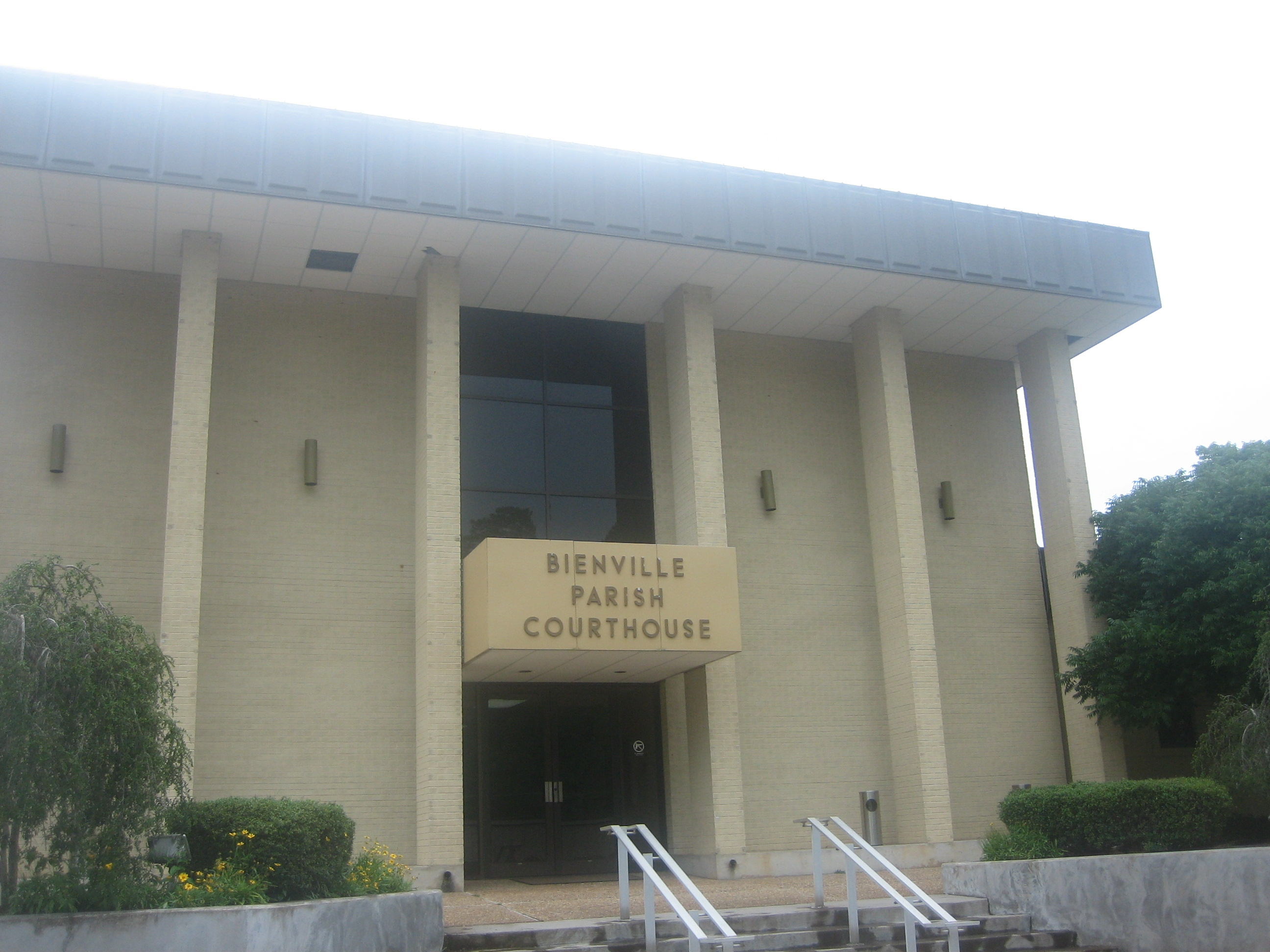 Courthouse of Bienville Parish, Louisiana)